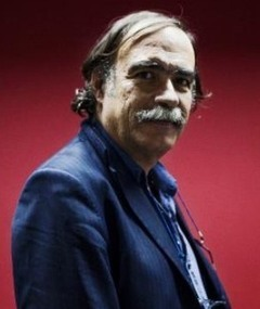 Paulo Branco